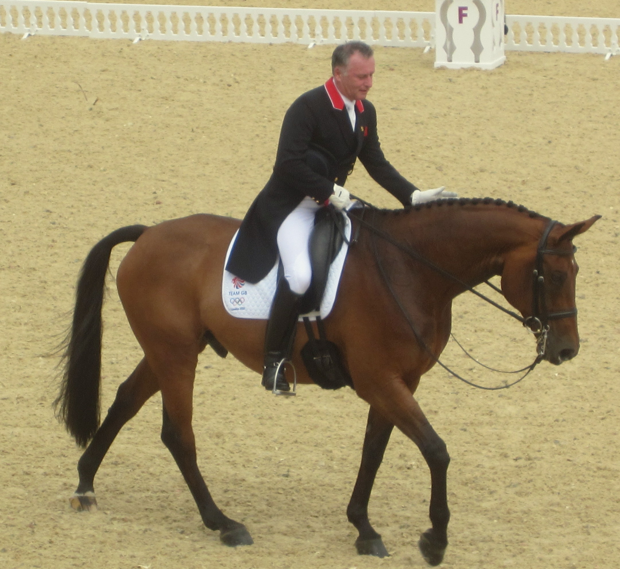 Greenwich Park, 7 August 2012 - GB winning the Team Dressage Gold Medal